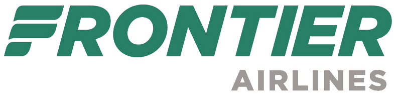 Logo of Frontier airlines, a company of the United States.